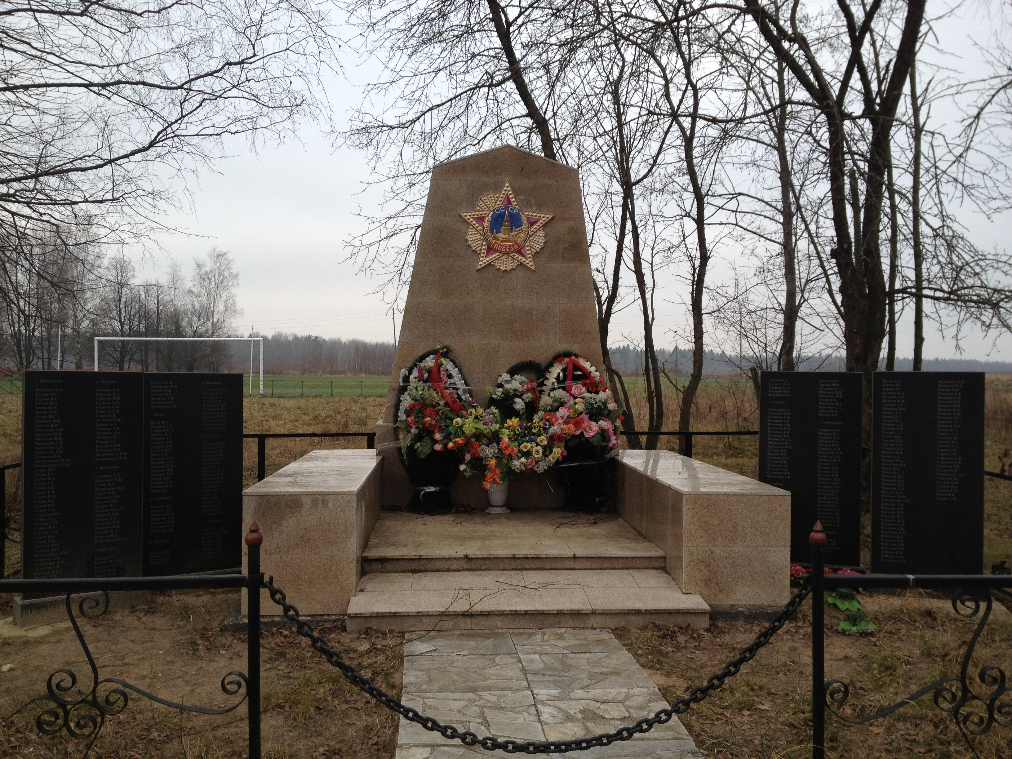 Memorial stone in Pavlovichi (Taldomsky district).